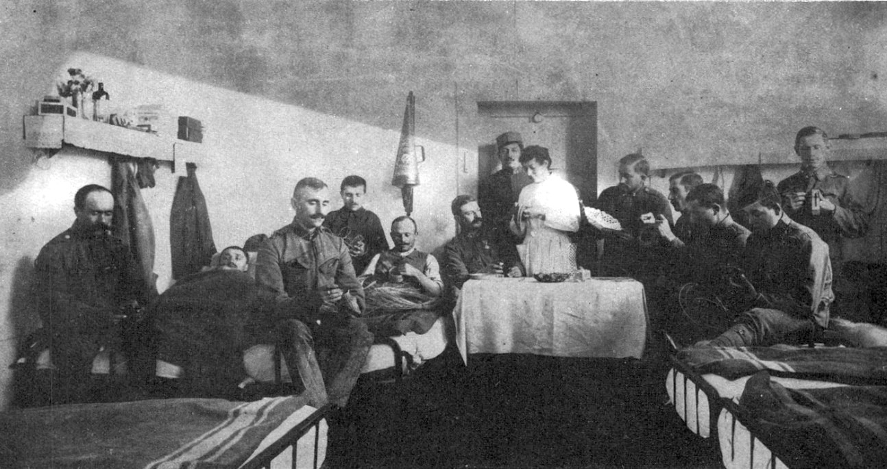 Epidemic Hospital, Miskolc, 1915